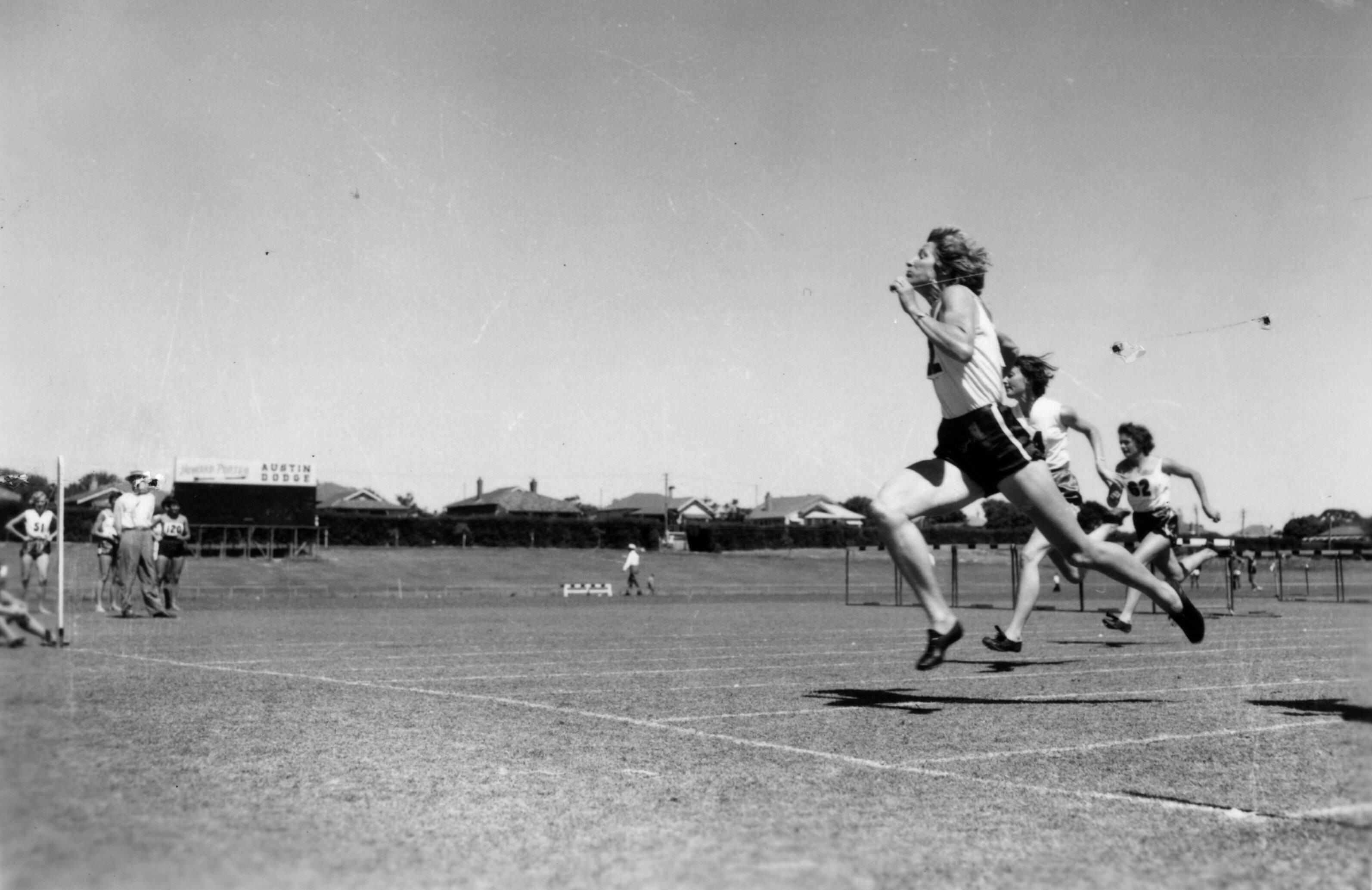 An image of runner Shirley Strickland running at East Fremantle Oval, taken in 1950.